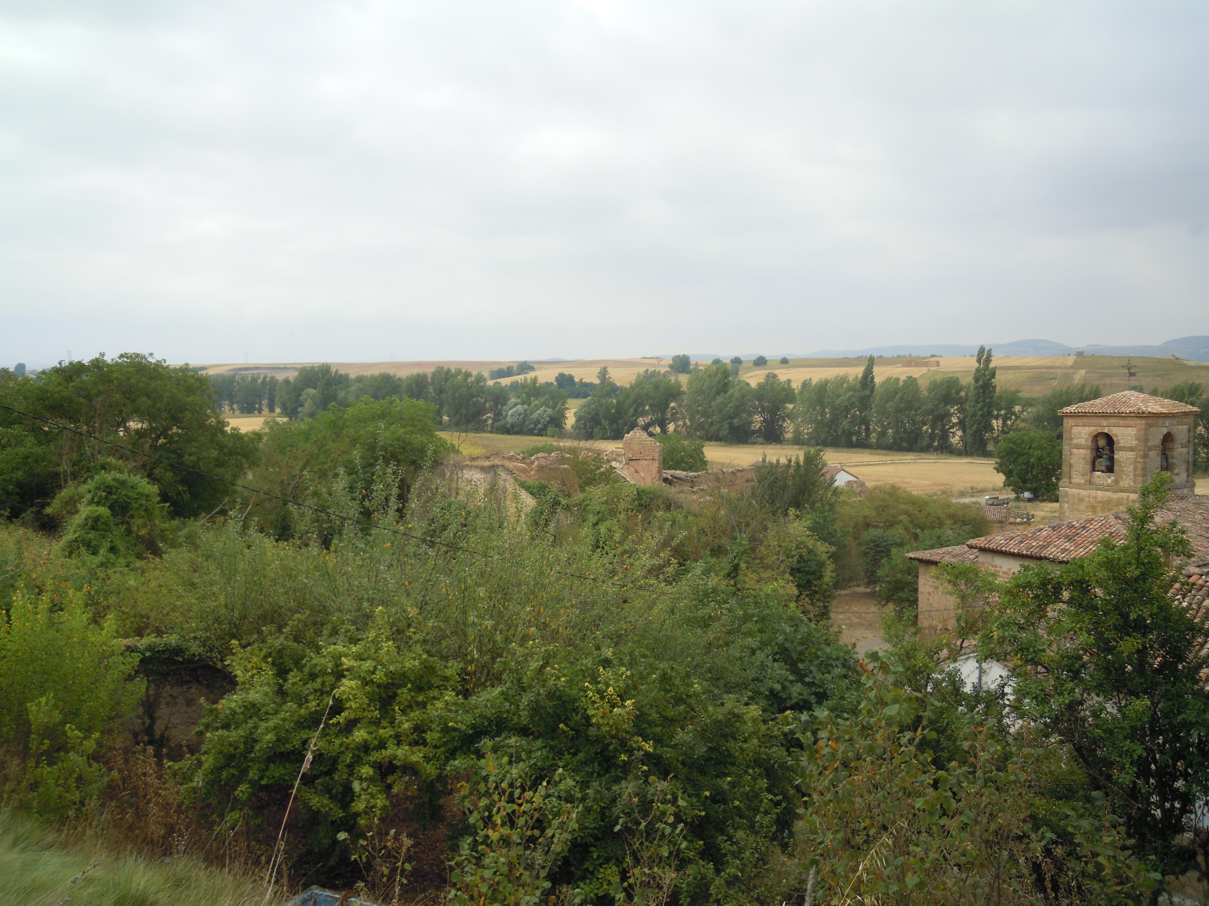 Ruins of the Monastery of Santa María de Vileña and church (Burgos, Spain)